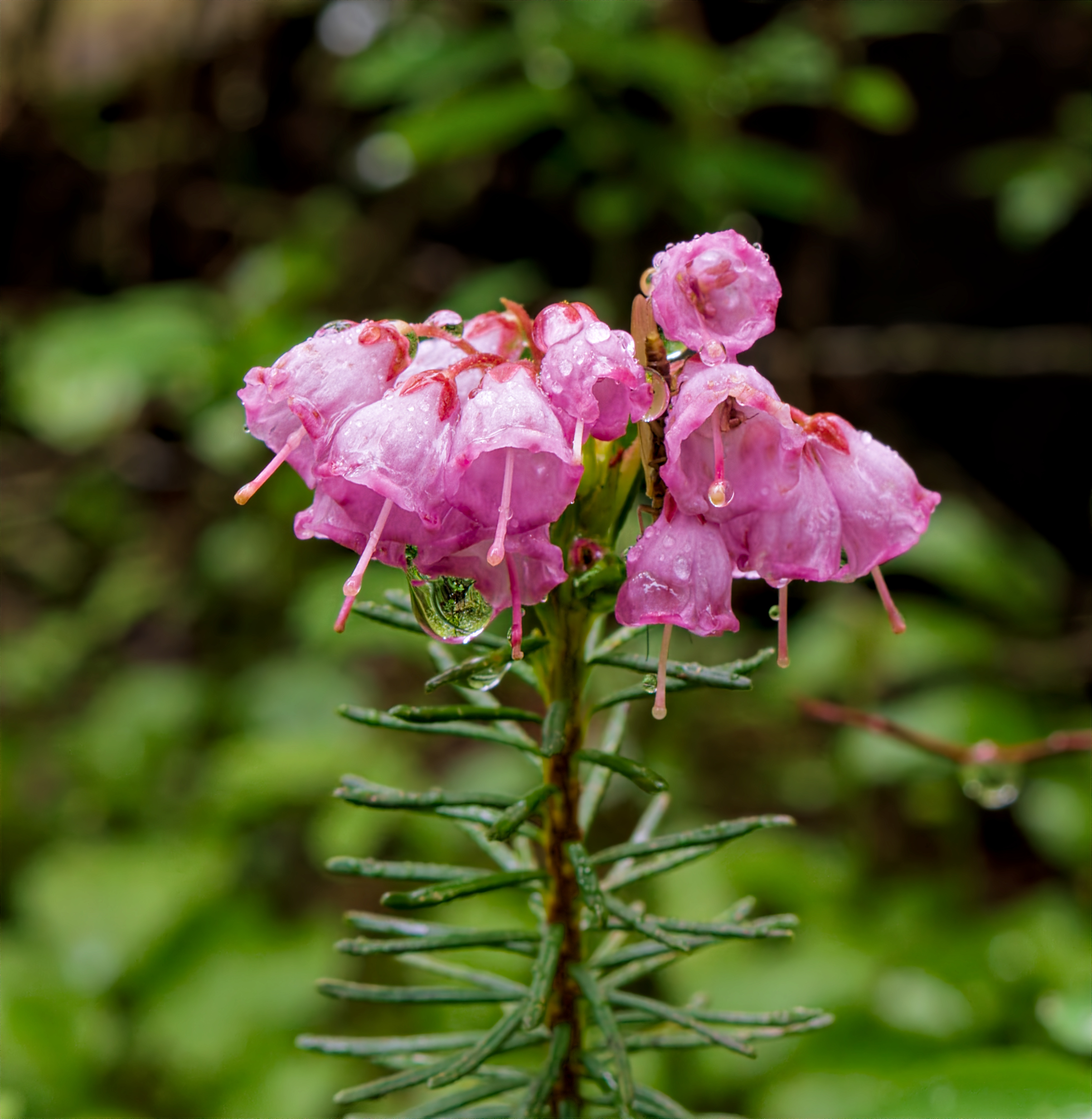 Pink mountain-heather (Phyllodoce empetriformis) in Clearwater Wilderness, WA